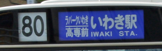 An example of information boards at buses (separated type of route number, course place and destination)